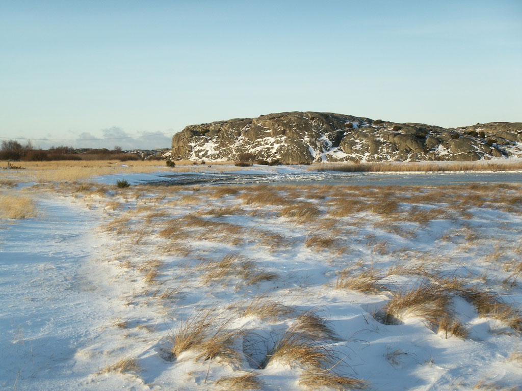 Winter landscape on Galterö, West-Sweden